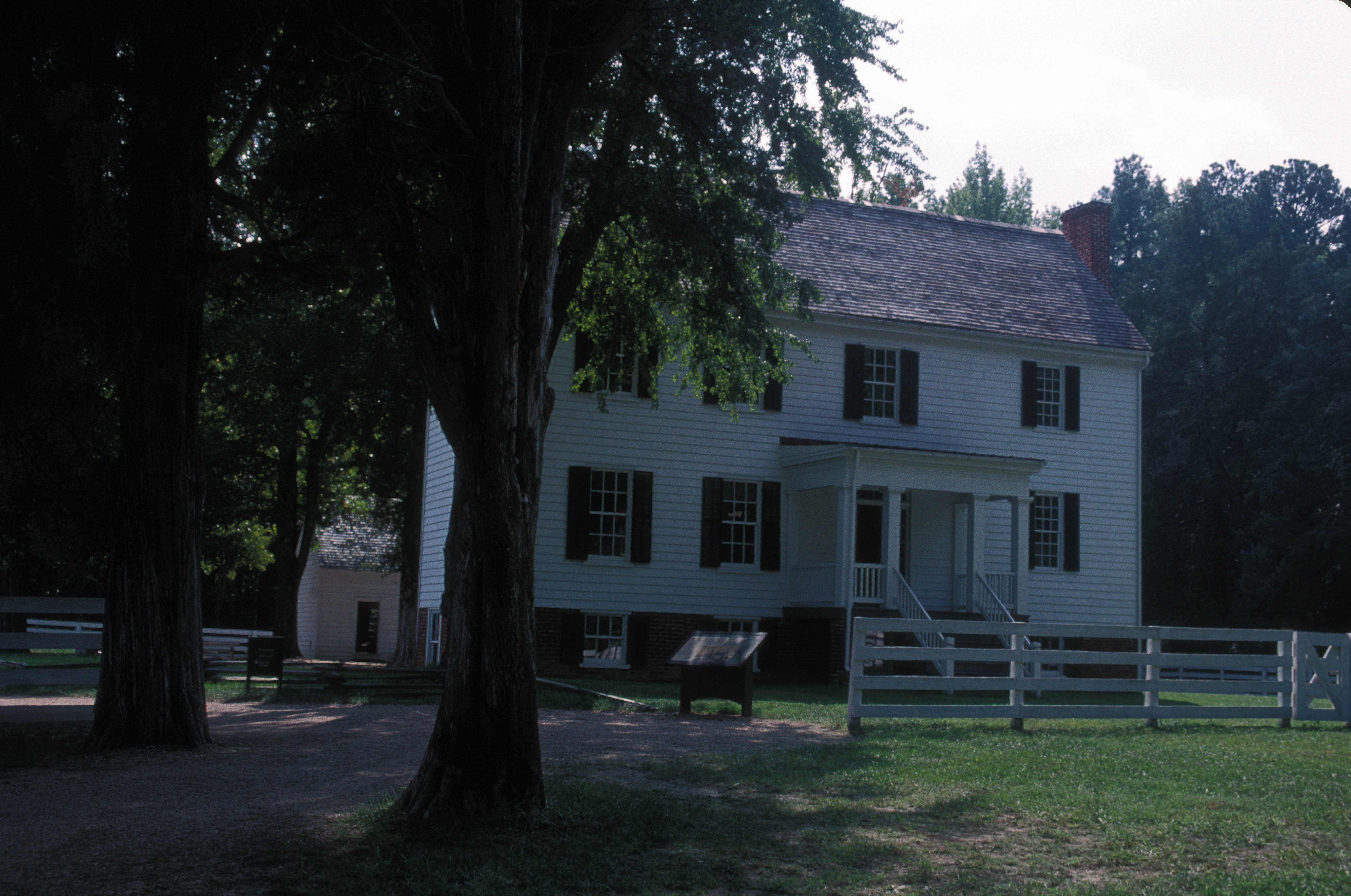 TUDOR HALL PLANTATION BUILT IN 1812 AND ENLARGED IN 1850. HOME OF THE BOISSEAU FAMILY. IT WAS THE WARTIME HEADQUARTERS OF CONFEDERATE GENERAL SAMUEL MCGOWAN. THIS HOUSE STANDS RIGHT ON THE SITE WHERE GRANT MADE HIS BREAKTROUGH FORCING THE EVACUATION OF RICHMOND. IT IS MAINTAINED BY THE PAMPLIN HISTORICAL PARK ALONG WITH THEIR NEARBY MUSEUM DEDICATED TO THE BREAKTHROUGH.